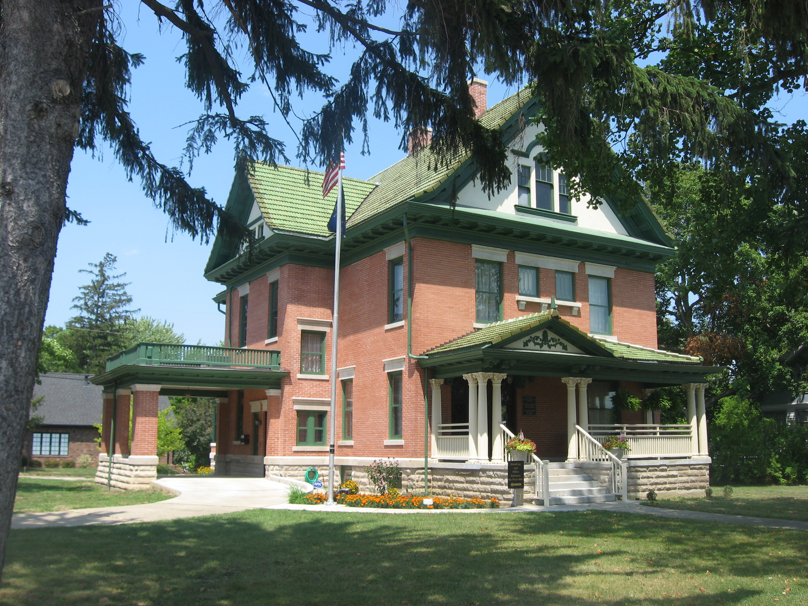 Front and western side of the Thompson-Ray House, located at 407 E. Main Street (U.S. Route 35) in Gas City, Indiana, United States. Built in 1906, it is listed on the National Register of Historic Places.